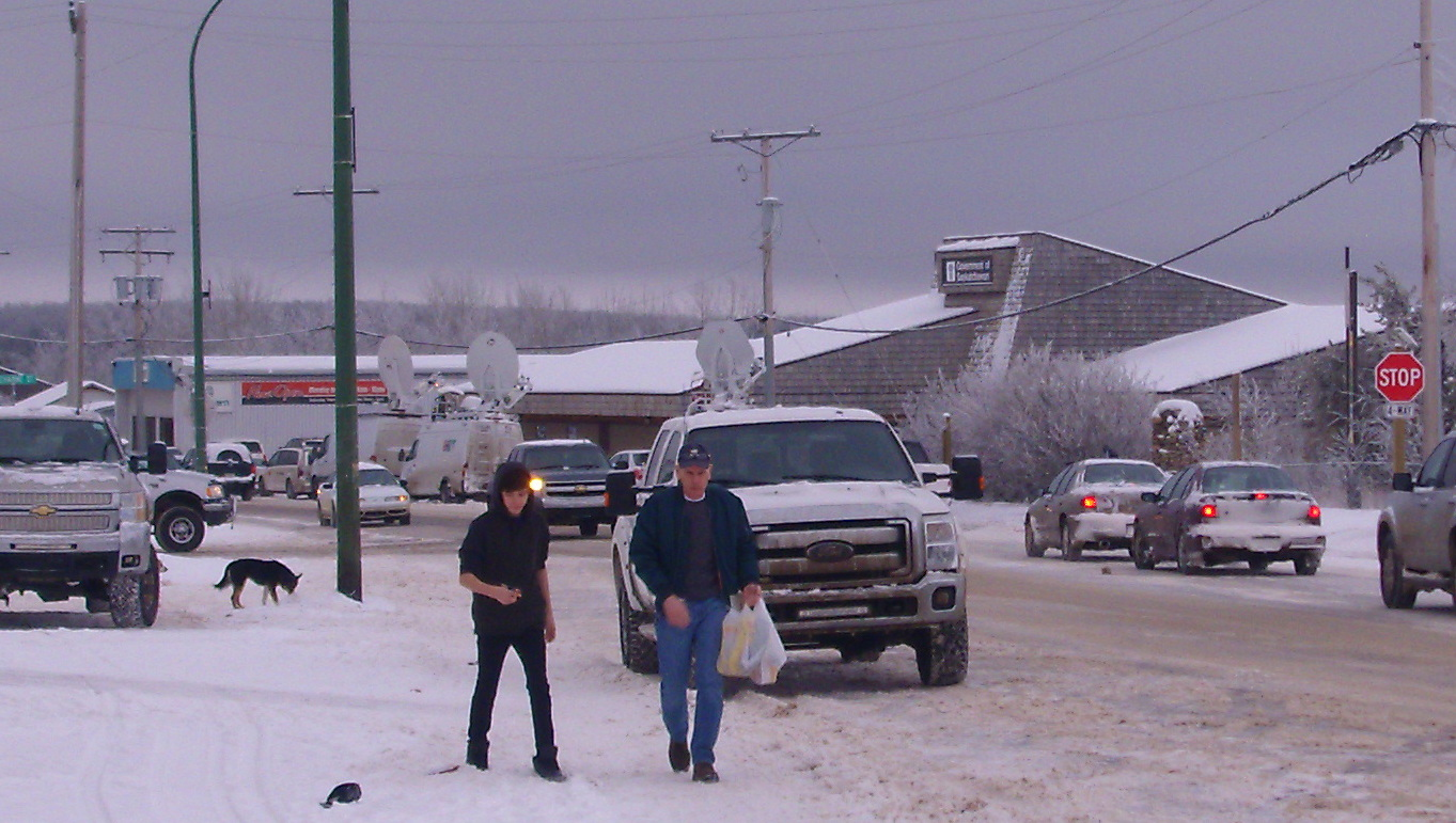 Media Vehicles on main street of La Loche